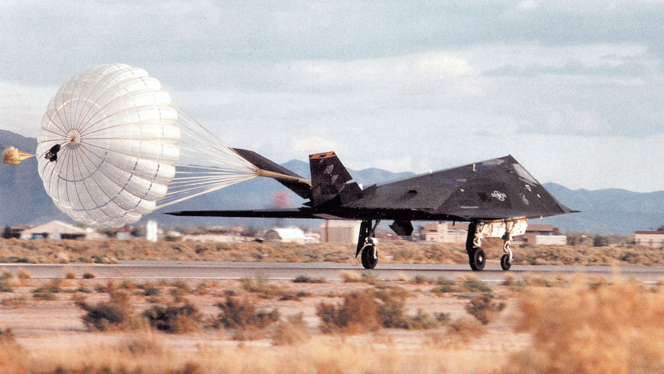 8th Fighter Squadron F-117A 86-0840 landing at Holloman AFB with drouge chute deployed